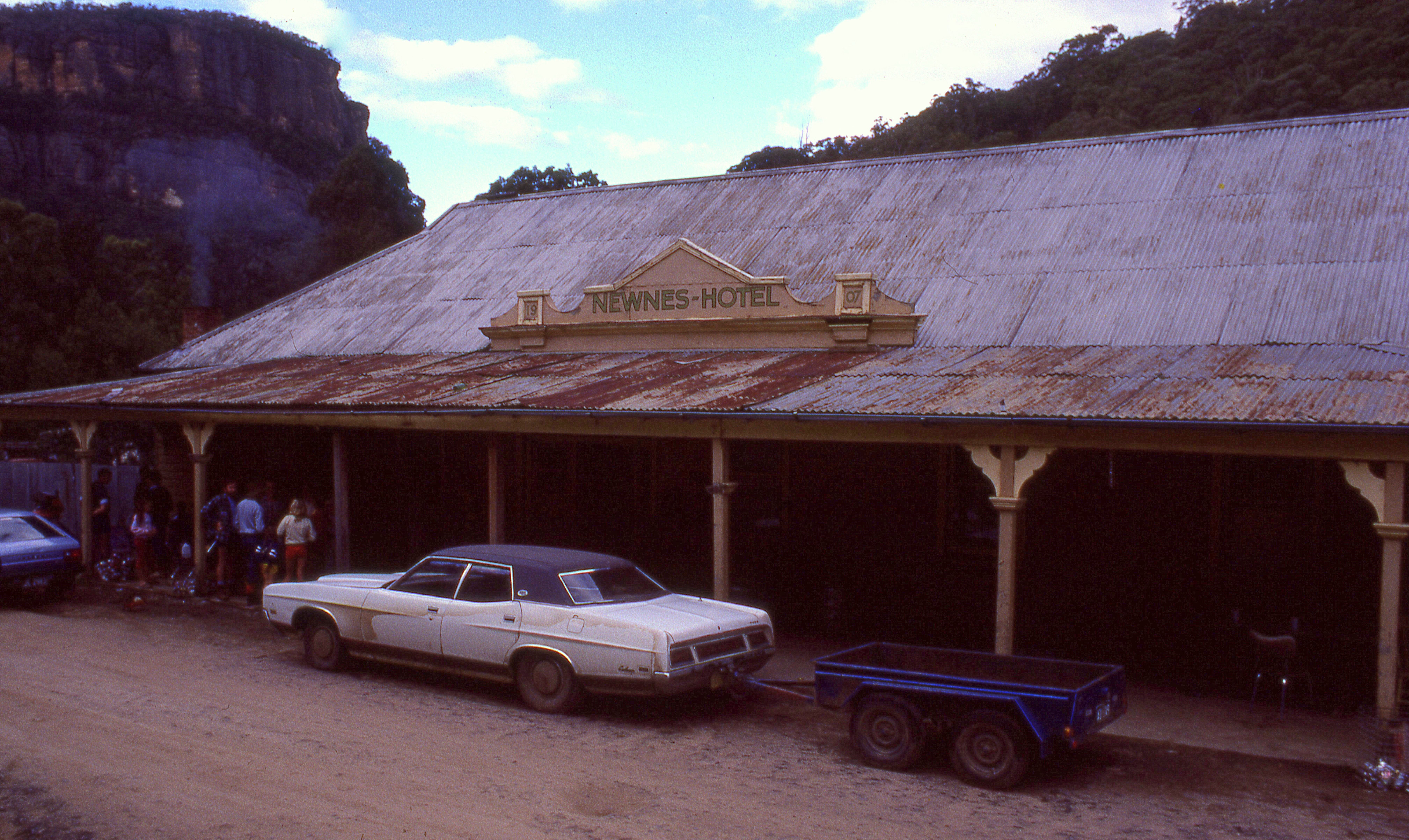 Newnes Hotel, Wolgan Valley, NSW, Australia (old Kodachrome slide scanned at 6400)